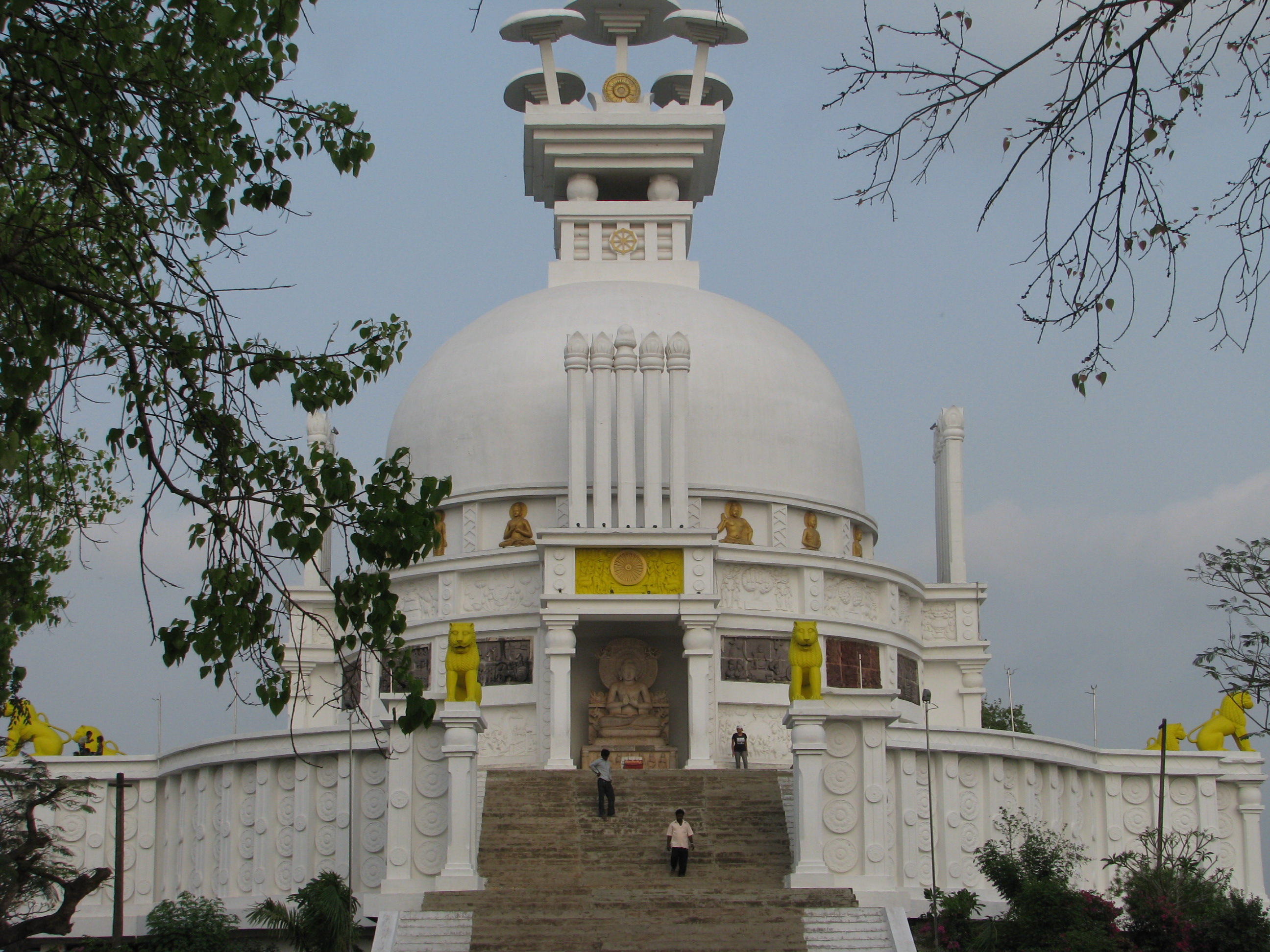 This media file is uploaded with Malayalam loves Wikimedia event.